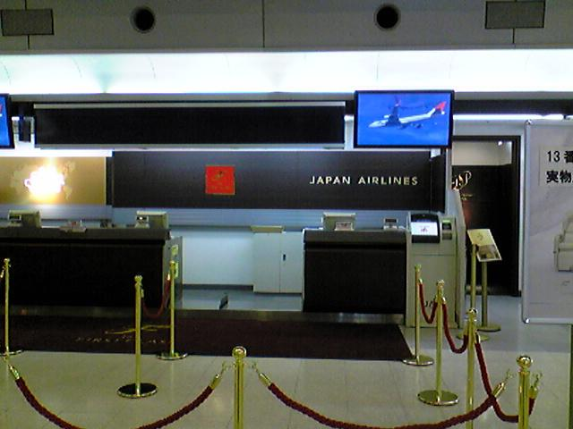 Japan Airlines Domestic First Class Check-in counter, Haneda Airport